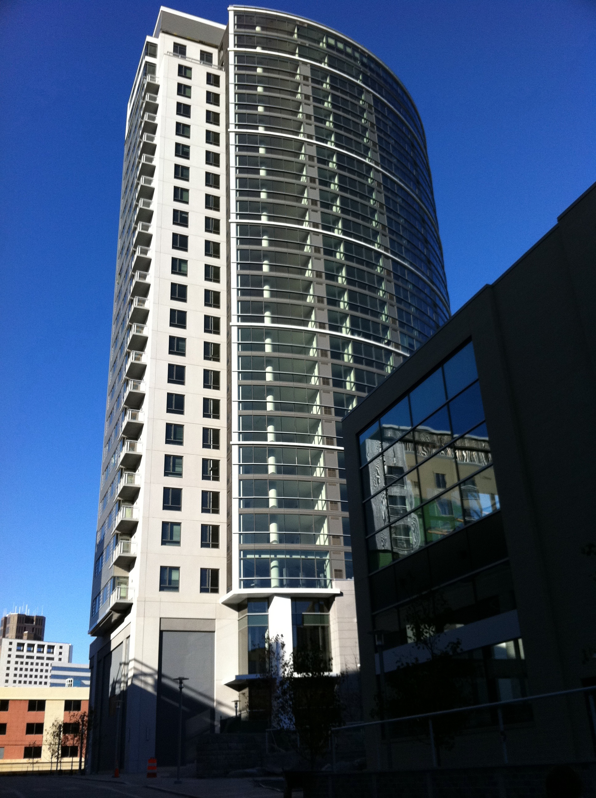 The tallest tower in Montgomery County, Maryland - North Bethesda Market East - topping at 24-floors. Definitely not in Hong Kong anymore. Part of a the new North Bethesda Market TOD going up at White Flint Metro station outside Washington, DC.